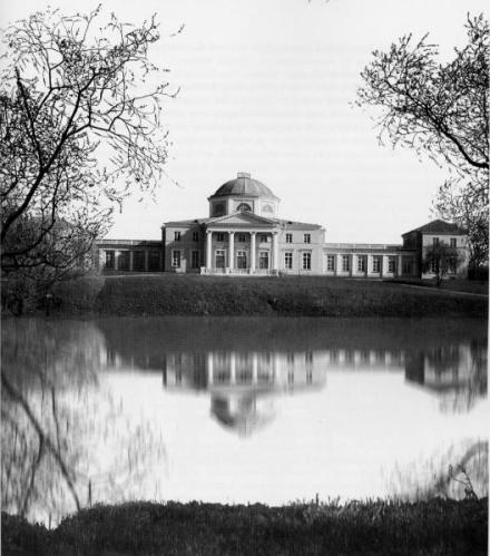 Alexandrino Manor, Alexandrino Park, St. Petersburg